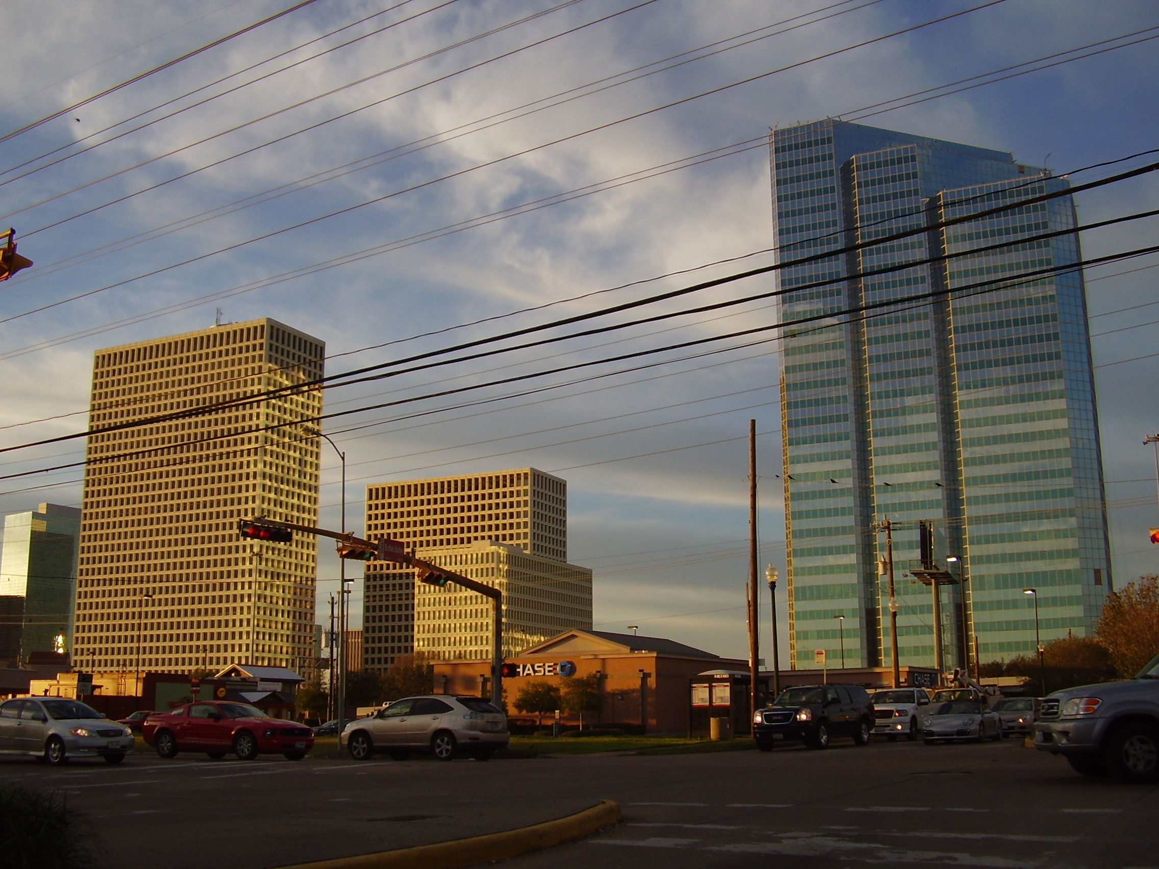 Greenway Plaza and Phoenix Tower skyline